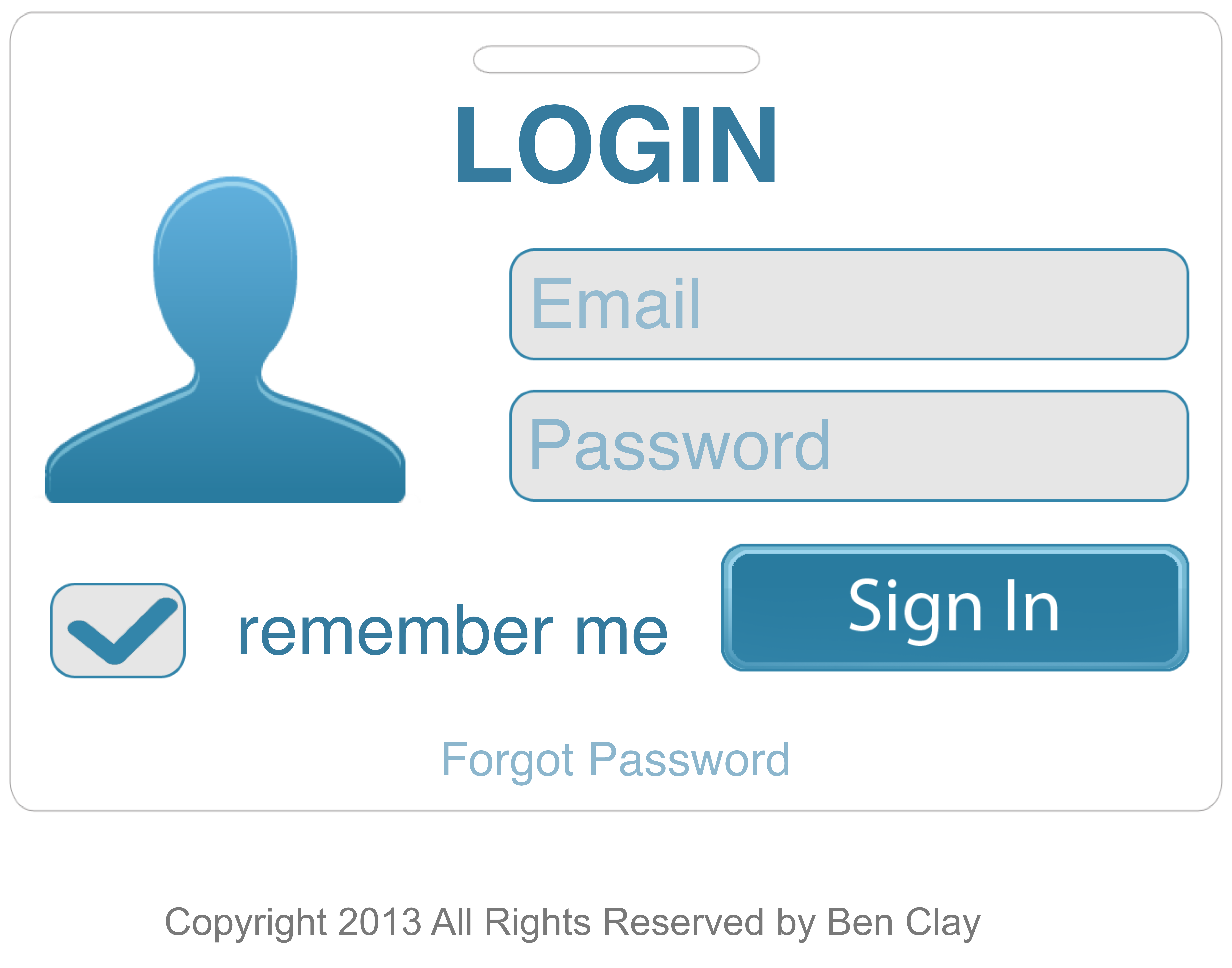 UX/UI for Vertical Login User Story